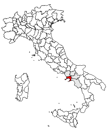 Position of Napoli province.